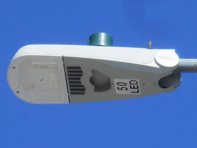 History of street lighting.